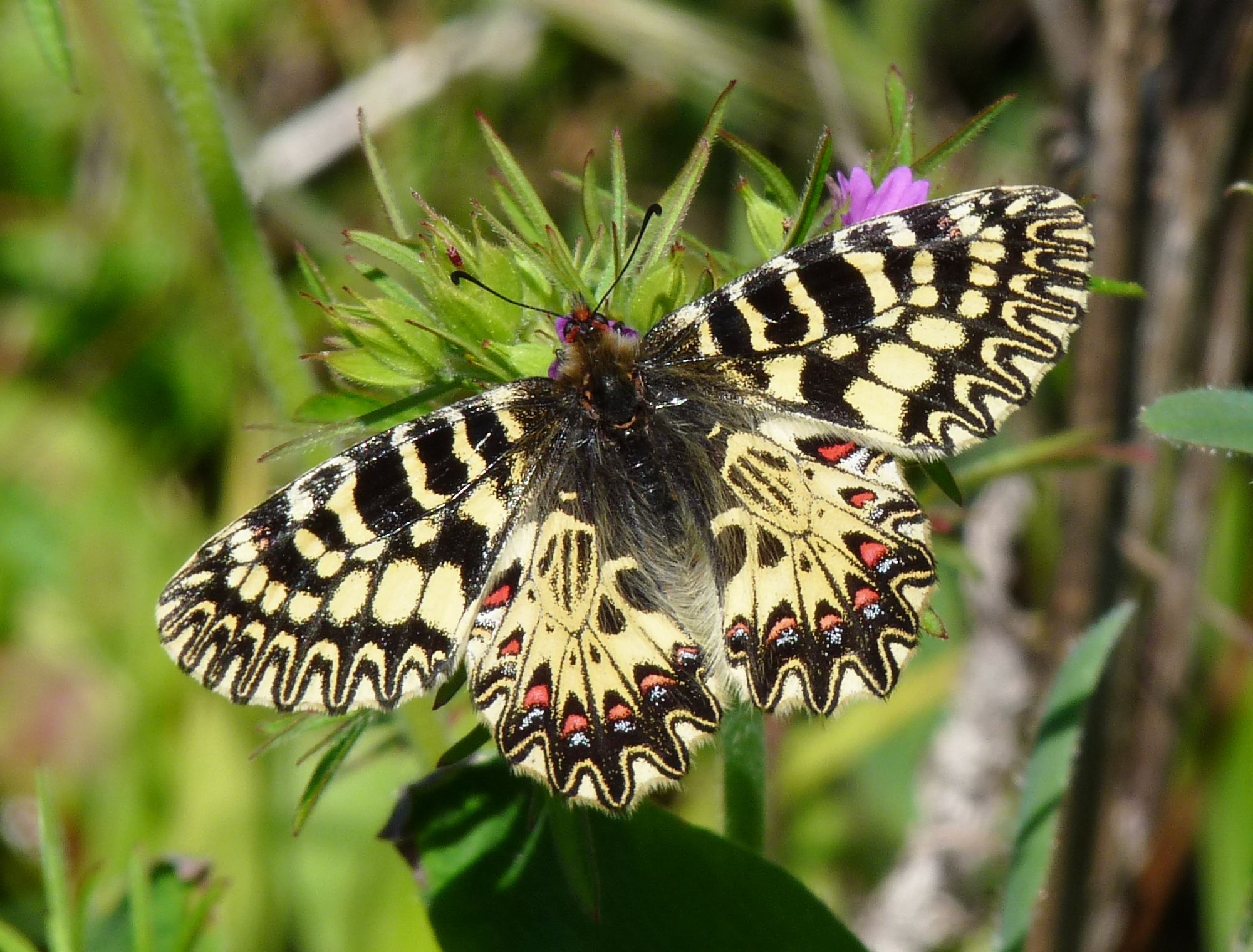 Zerynthia cassandra, near Livorno, Tuscany, Italy